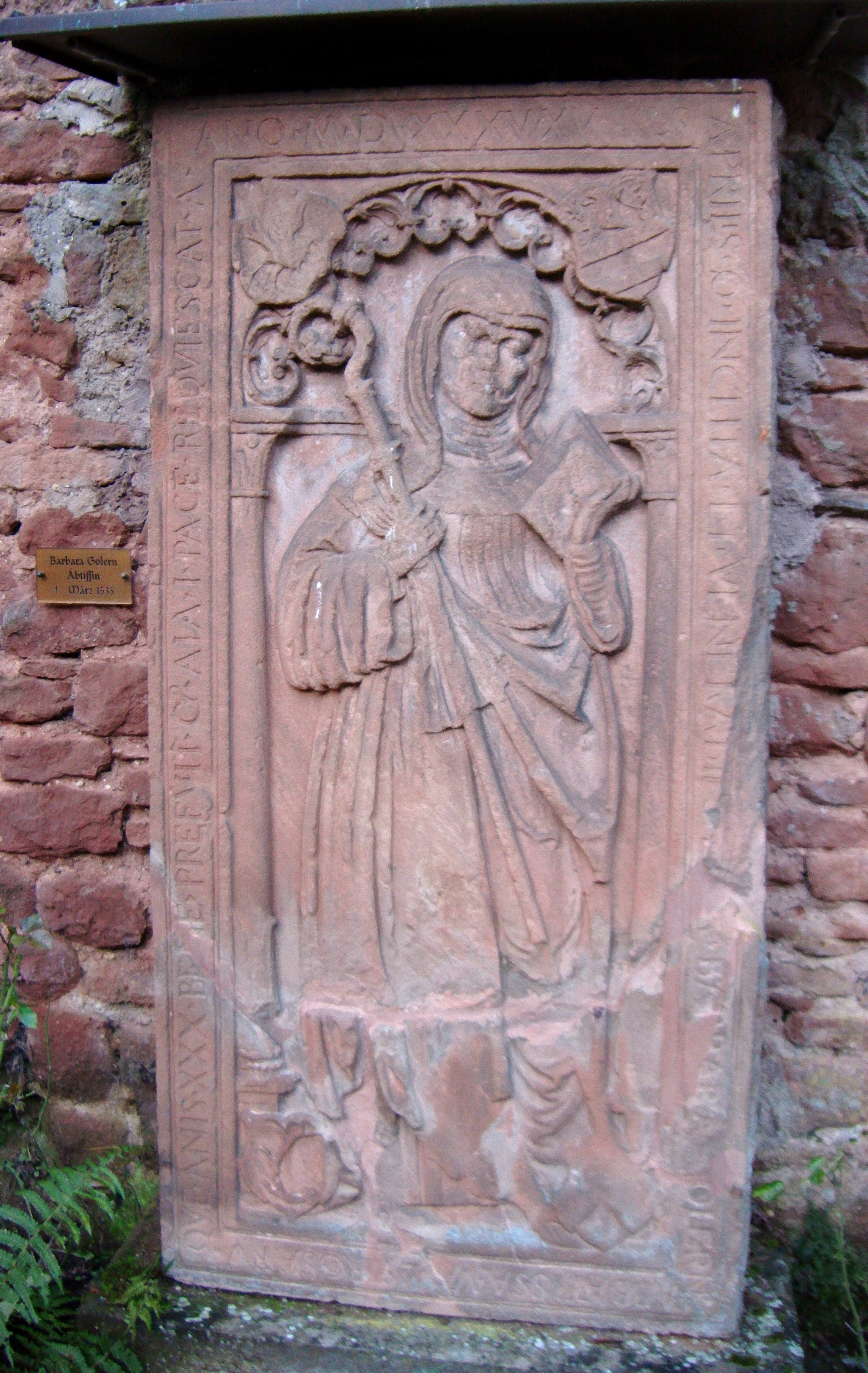 Grabplatte der Äbtissin Barbara Göler von Ravensburg (+ 1535), Kloster Rosenthal, Pfalz